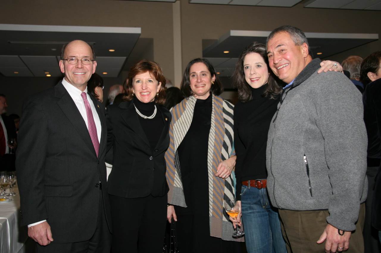 Chip and Senator Kay Hagan, Susan Fisher Sterling, Director, National Museum of Women in the Arts, and lobbyists Tony Podesta and Heather Podesta at a party hosted by the Podesta Group in Washington, DC to honor of the inauguration of Barack Obama.